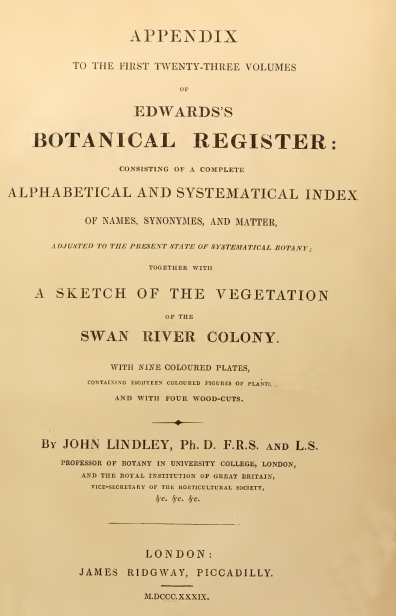 This is a scan of the frontispiece of Appendix to the First Twenty-Three Volumes of Edwards's Botanical Register, which contained within it John Lindley's A Sketch of the Vegetation of the Swan River Colony.